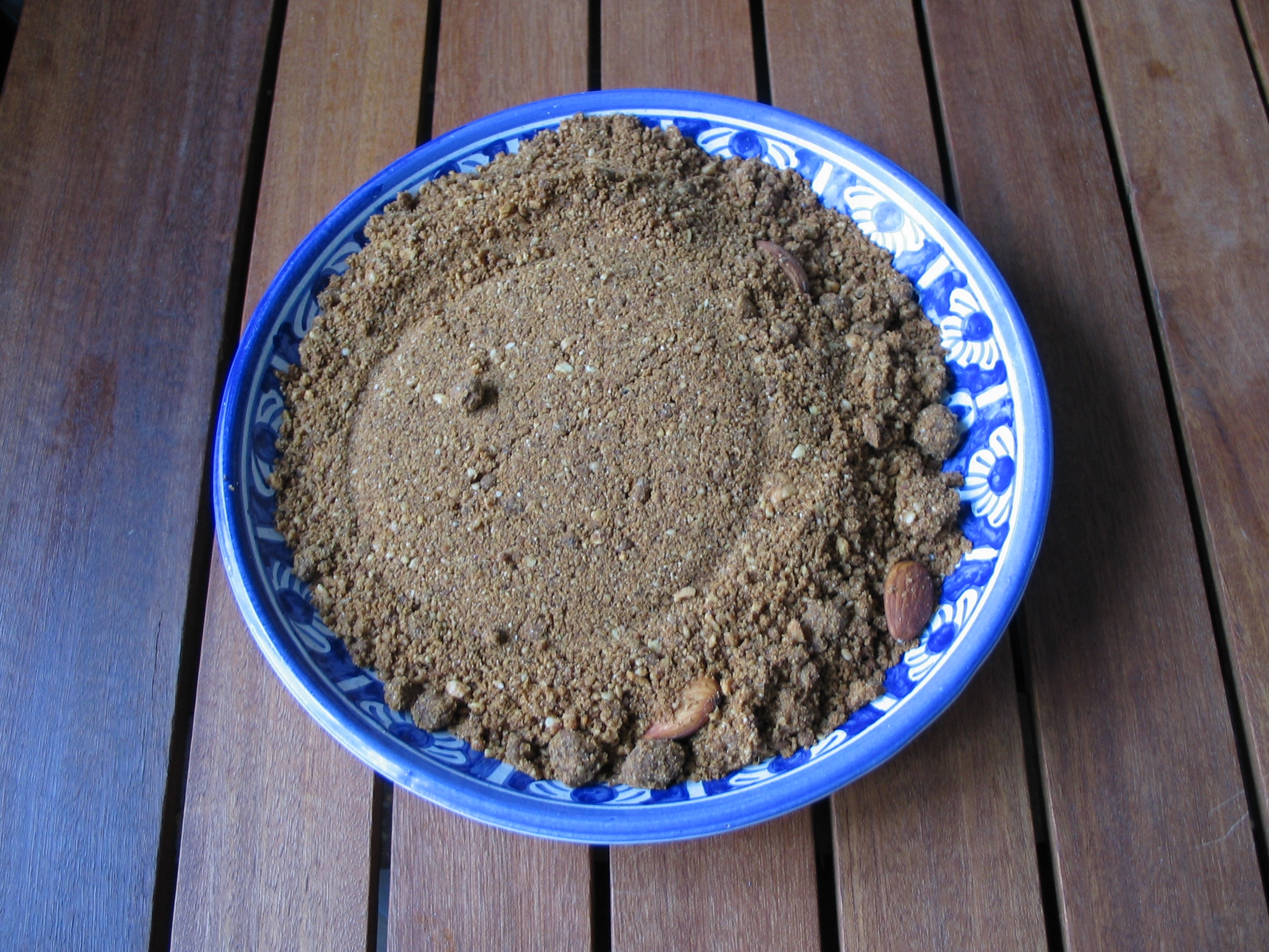 Sfouf